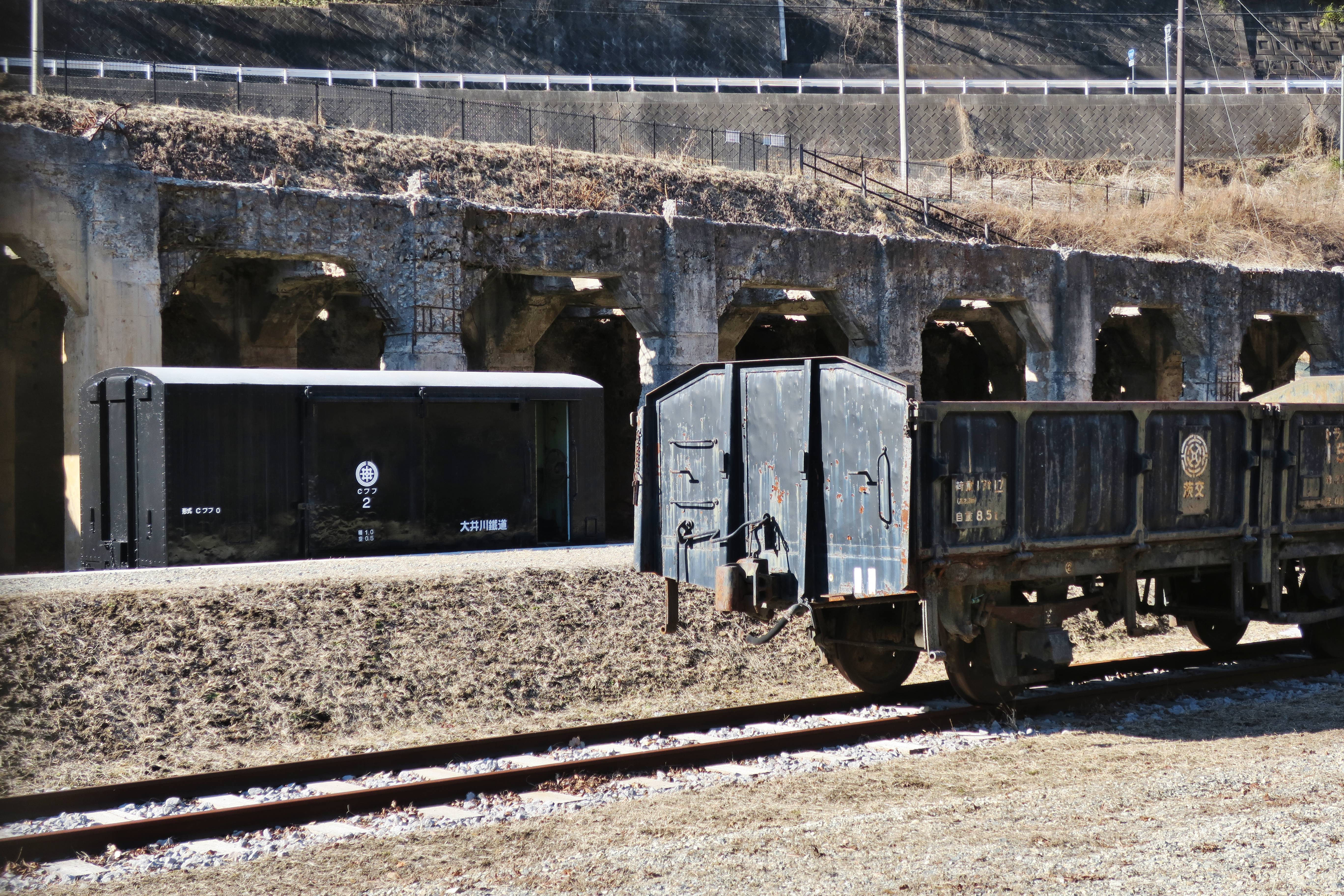 Oshi Station.